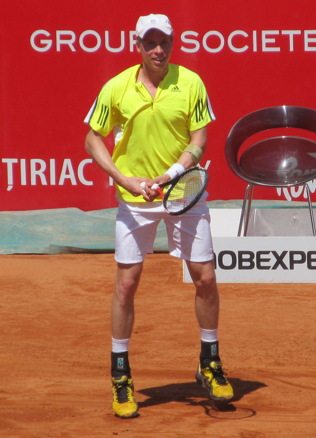 Timo Nieminen playing in the first qualifying round of the 2012 BRD Năstase Țiriac Trophy against Jürgen Zopp